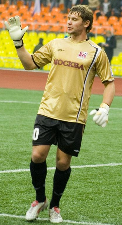 Yuri Zhevnov as a player of FC Moscow